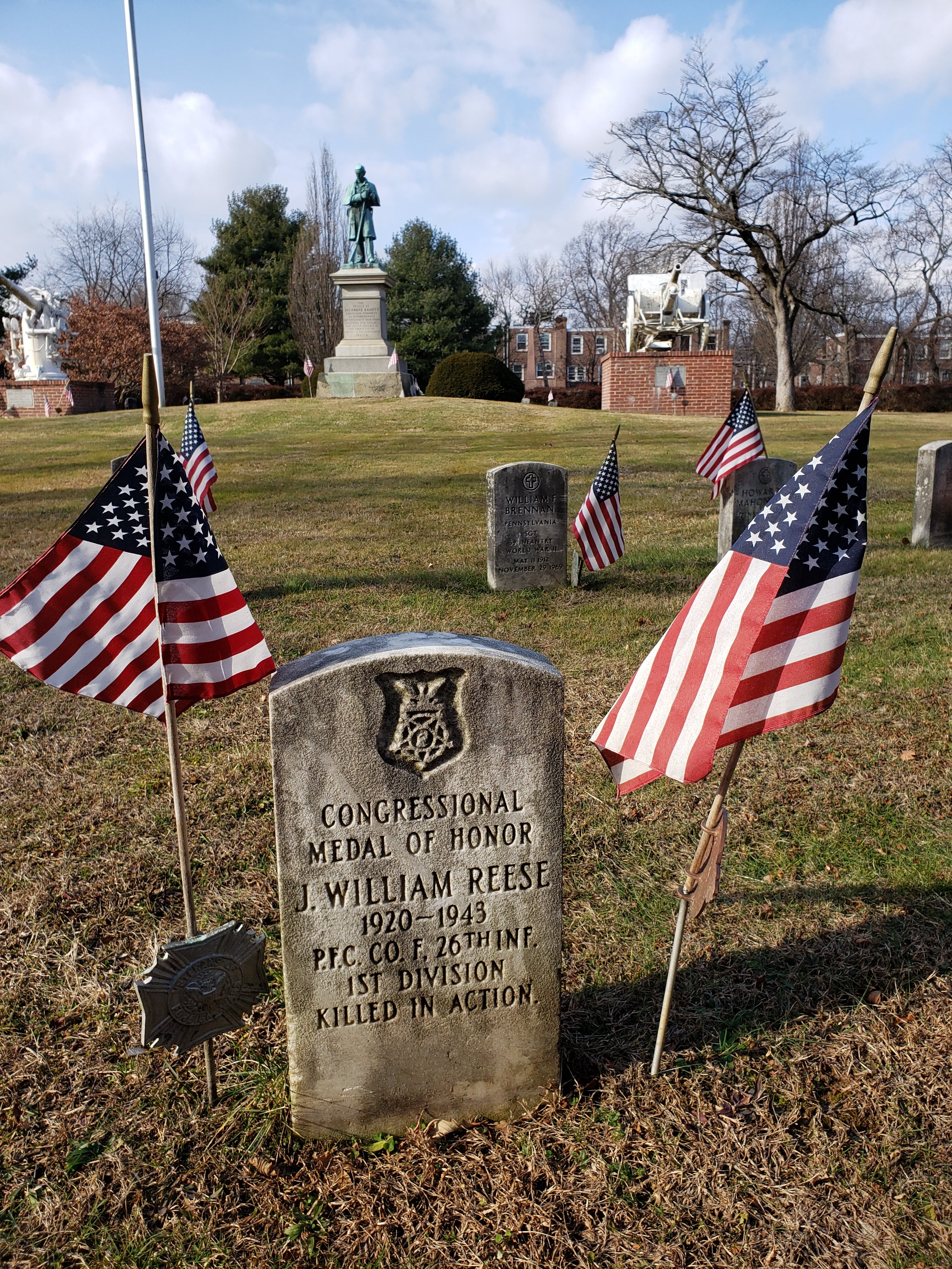 J William Reese grave in Chester Rural Cemetery in Chester, Pennsylvania. Photo taken January 2020.